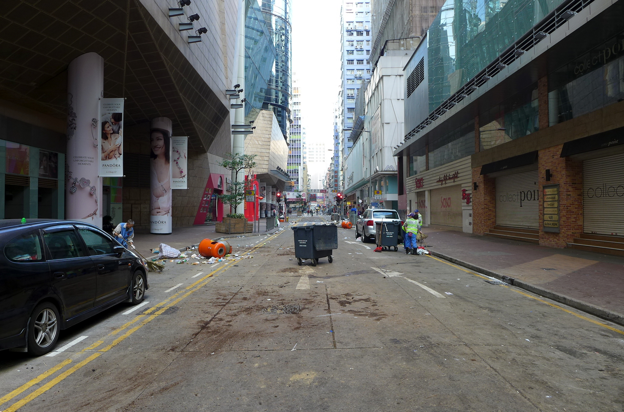 Portland Street after Fishball Revolution